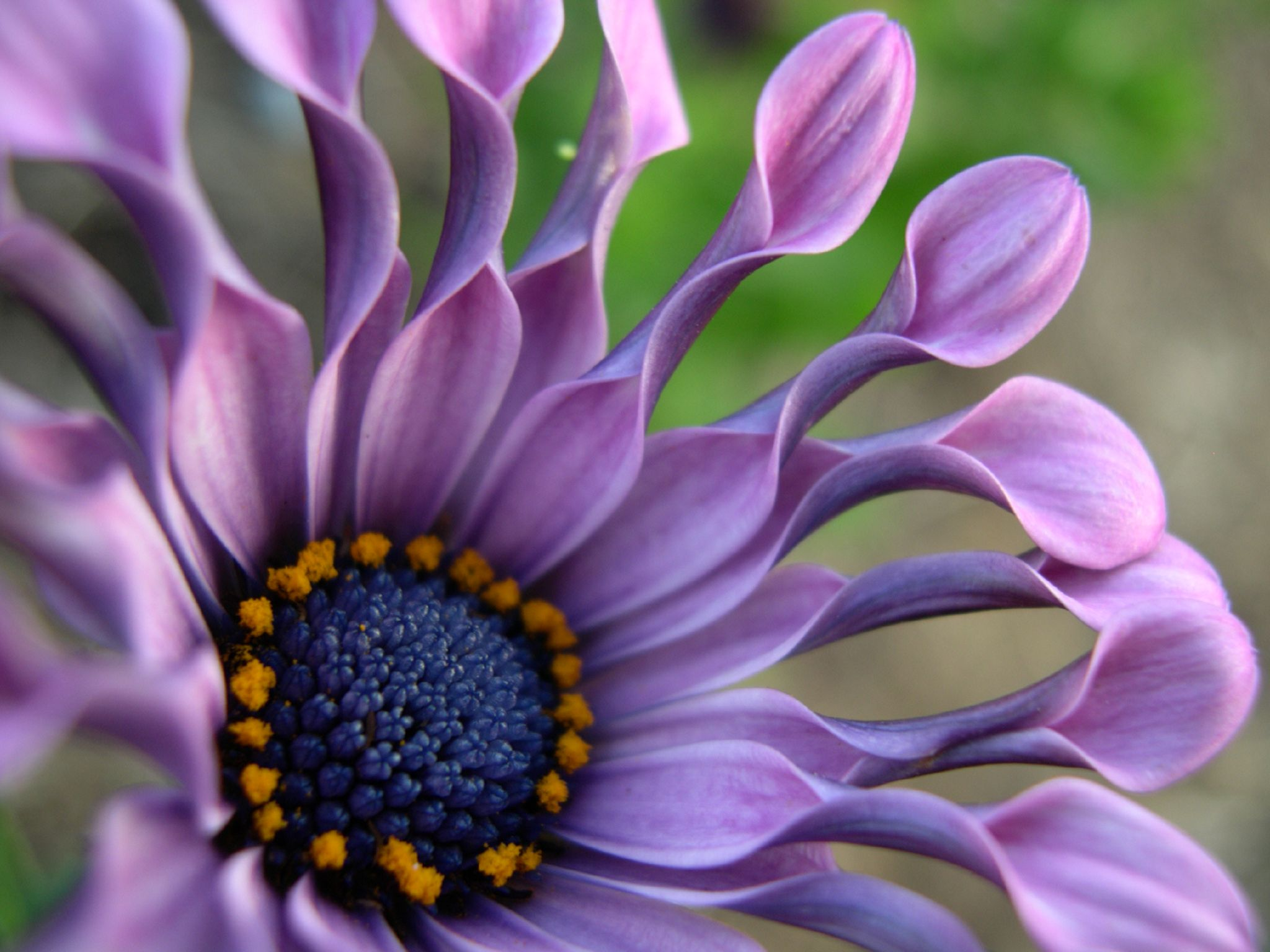 Osteospermum var. Lilac Spoon, Arboretum Lexington, Kentucky, U.S.